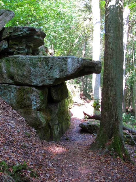 Caves of the of the dwarfs near Bad Kissingen (Germany)